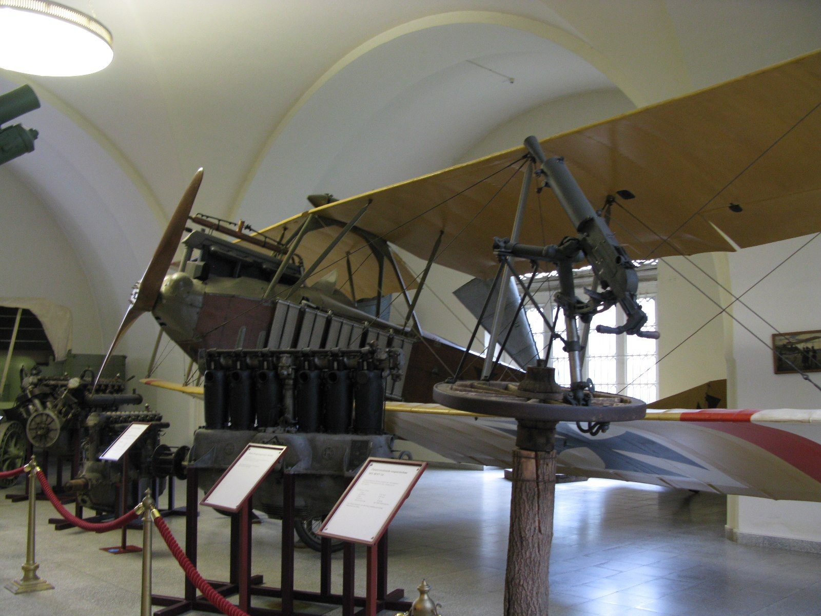 Phönix 20.01:Prototype for Austrian production of the Albatross B.I(Ph), with Hiero engine and Schwarzlose MG, in the Arsenal museum, Vienna